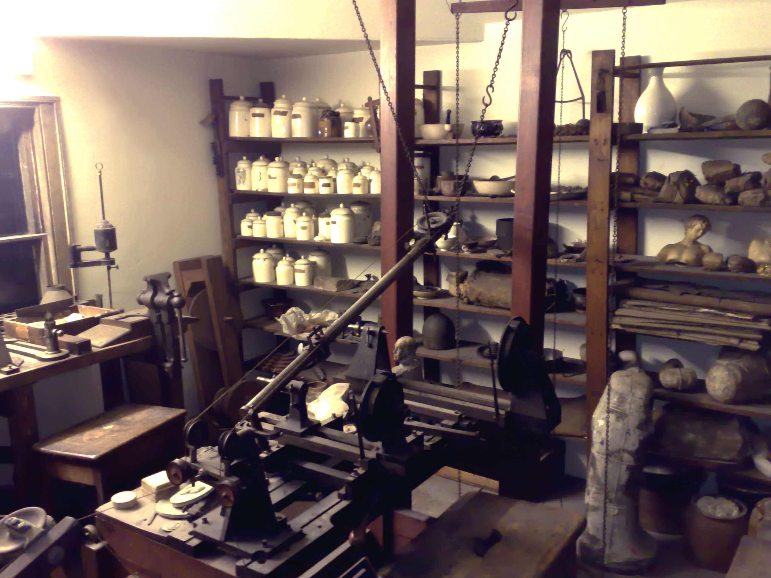 The inside of James Watt's garret workshop, preserved in the Science Museum, London